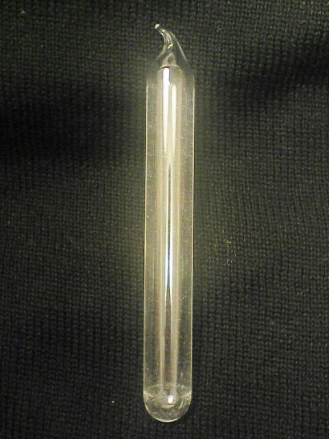 Sealed tube: test tube sealed by bunsen burner